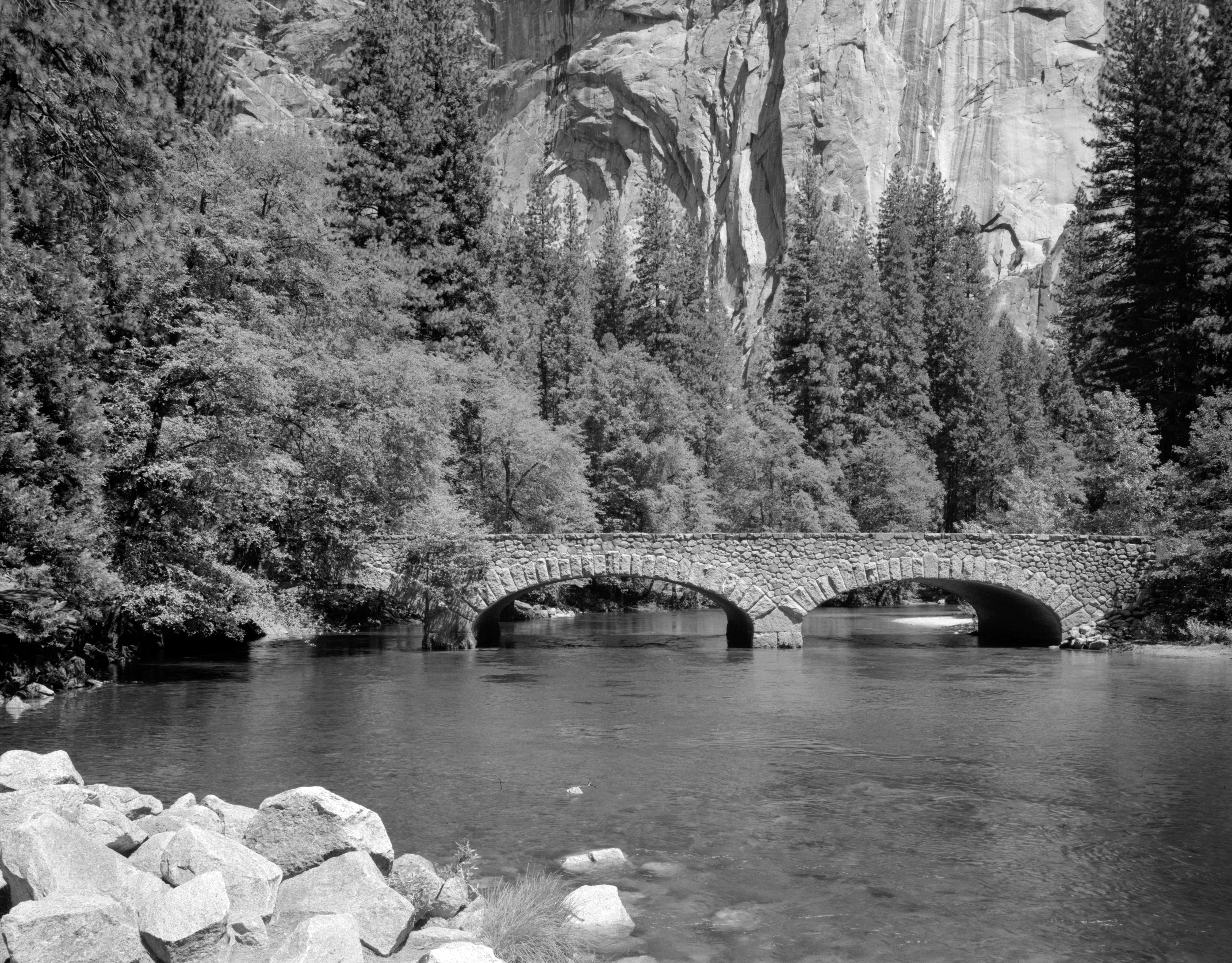 Ahwanee Bridge on the Merced River in Yosemite Valley, with the Triple Arches in the background — Yosemite National Park.